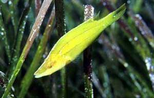 Picture of Symphodus rostratus